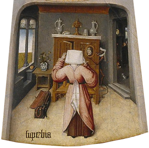 Table of the Mortal Sins [detail: Superbia (pride)].